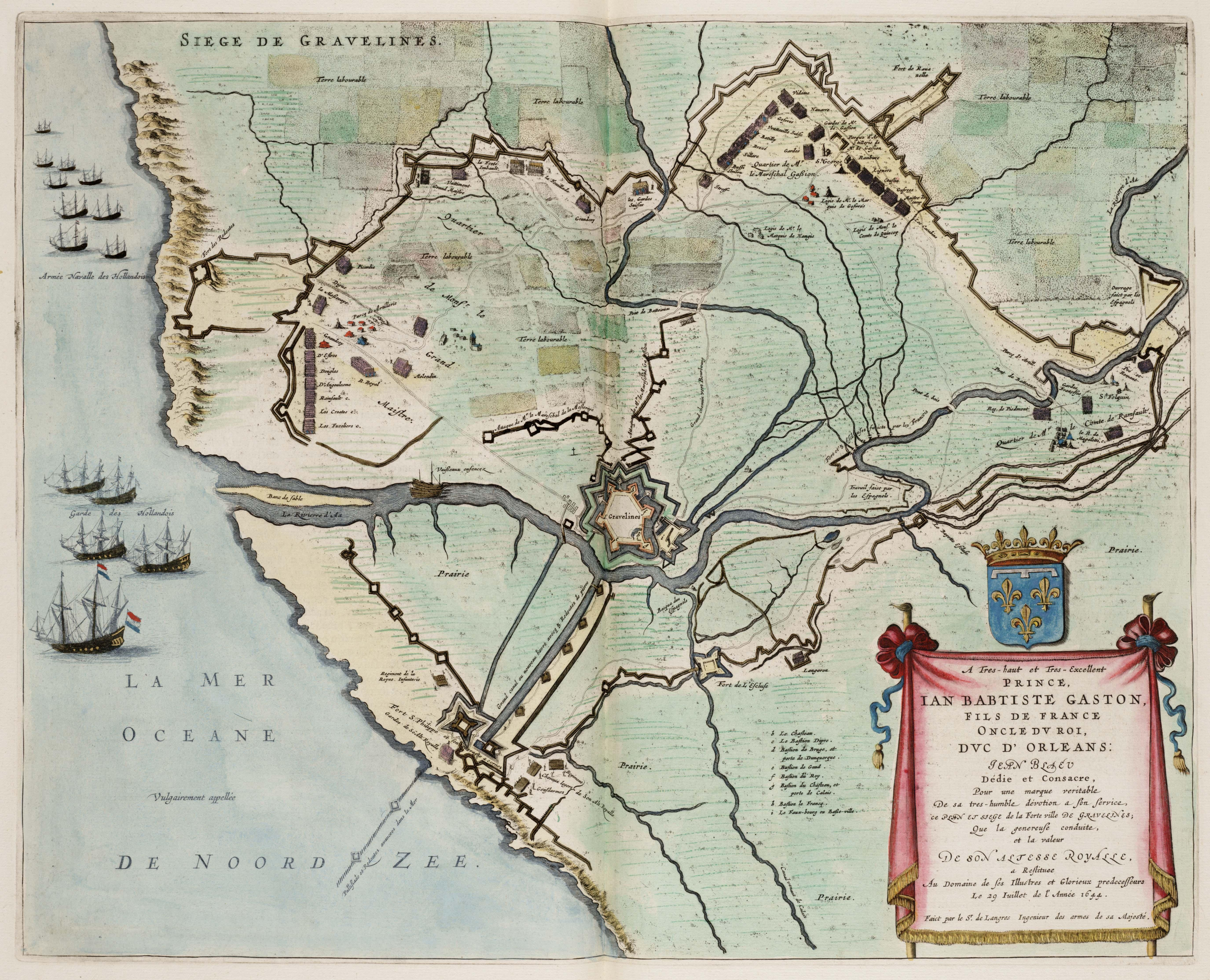 The siege of Gravelines (Grevelingen) in 1644 by the French.